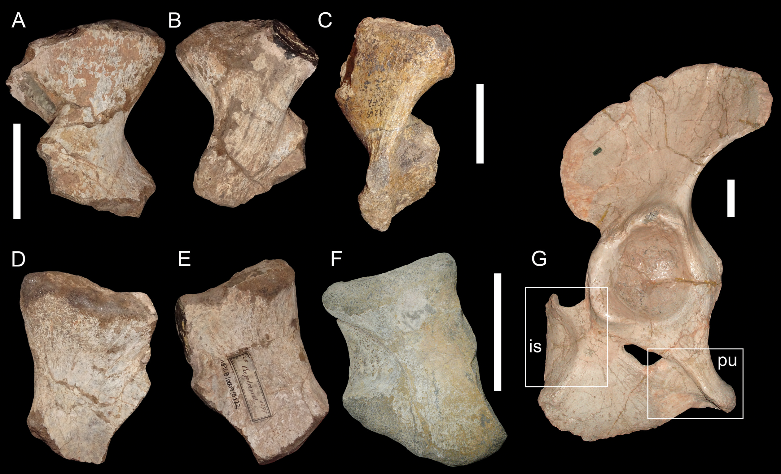 Pelvic elements of Pentasaurus goggai (NHMW 1876-VII-B-122) and comparisons with other stahleckeriids. Fragment of left pubis in (A) medial and (B) lateral views. Fragment of left ischium in (D) medial and (E) lateral views. C, Placerias hesternus (GPIT/RE/9585), isolated left pubis fragment in lateral view. F, Zambiasaurus submersus (NHMUK R9109), isolated left ischium fragment in lateral view. G, Jachaleria candelariensis (UFRGS PV0150T), nearly complete right pelvis in lateral view, highlighting the regions preserved in NHMW 1876-VII-B-122. Note strong ‘twisting’ of the pubis in B, C, and G. Abbreviations: is, ischium; pu, pubis. A, B, D, and E to scale. Scale bars equal 5 cm.